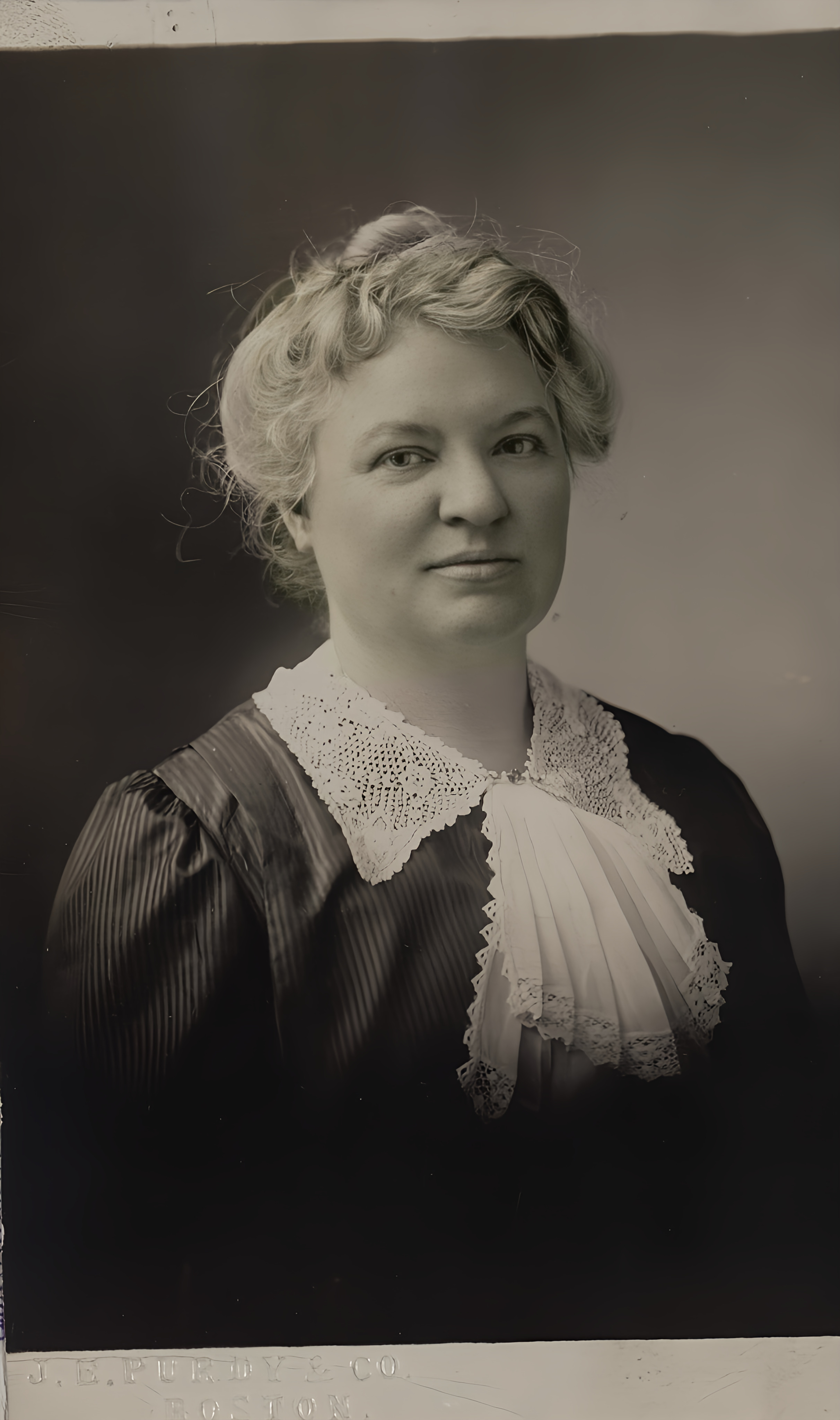 Summary: Head-and-shoulders portrait of Mary Hutcheson Page, facing camera, in striped dress with lace collar.